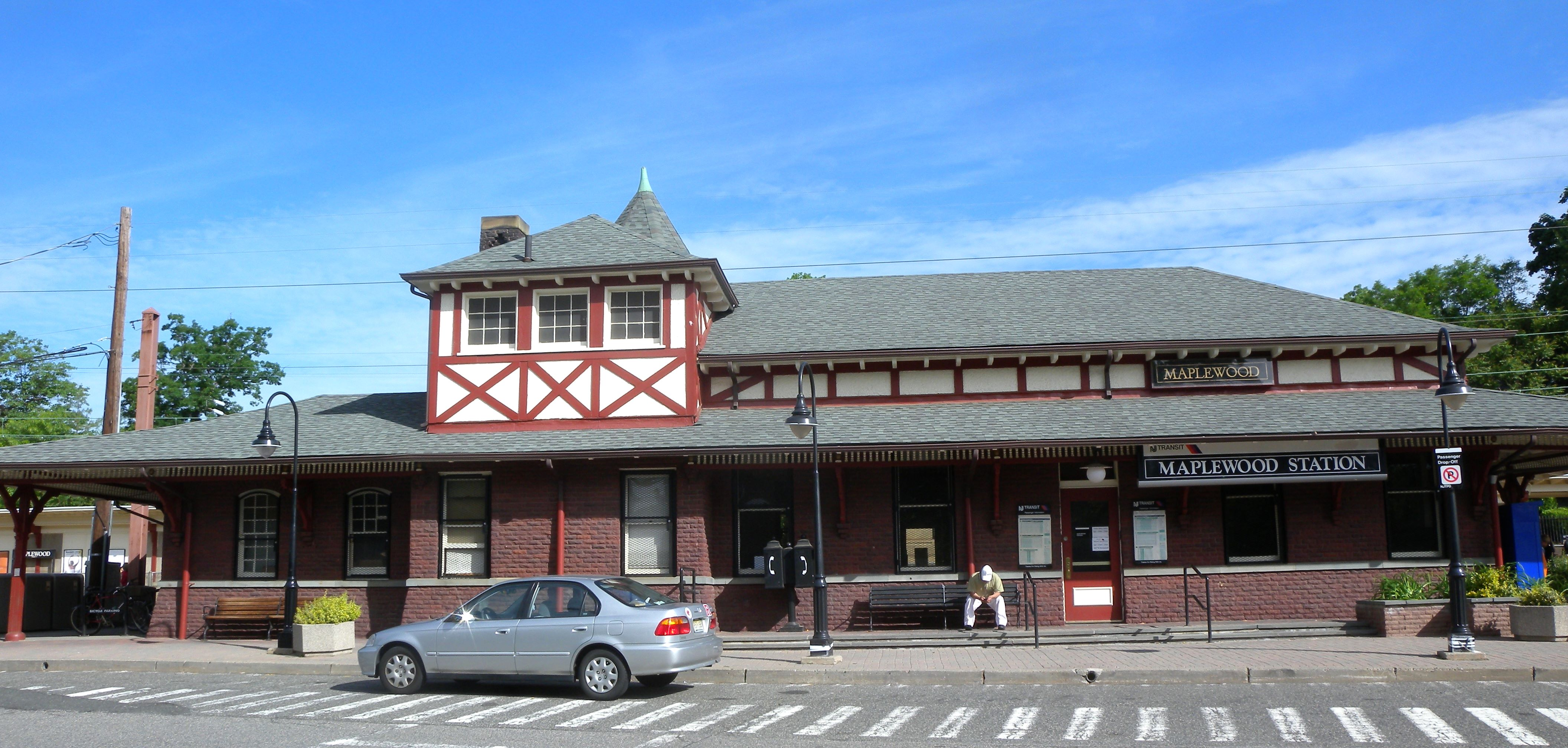 Looking northwest on a sunny morning at Maplewood Station.